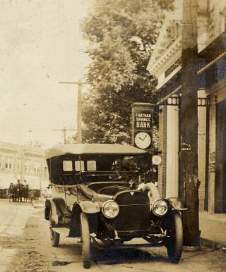 Photographic view of the Chatham Savings Bank on Main Street, Chatham, Pittsylvania County, Virginia. The car parked in front is a 1920–1921 Hudson.